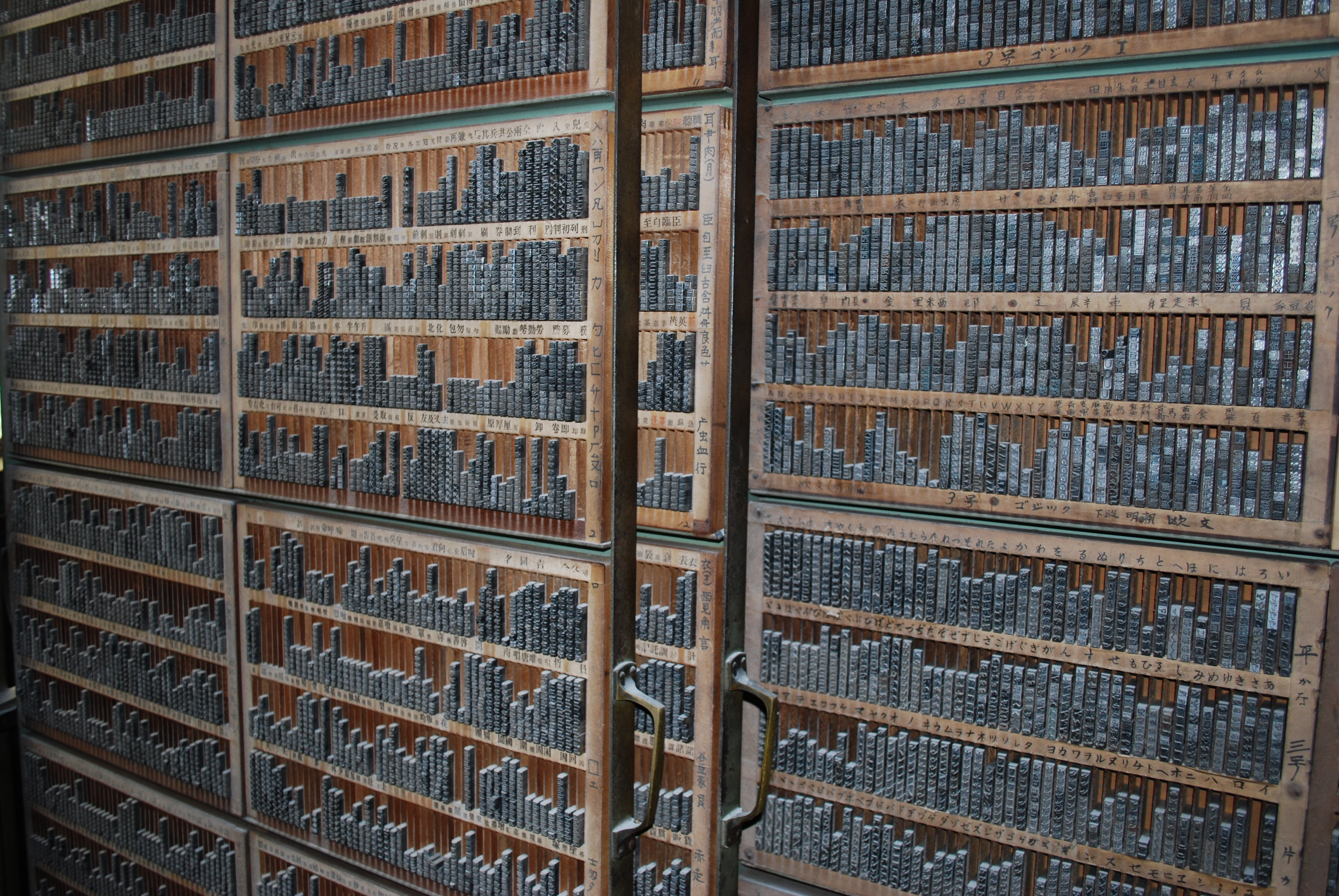 Japanese printing type,Japan. As for the Japanese, much printing type is necessary in comparison with the English.